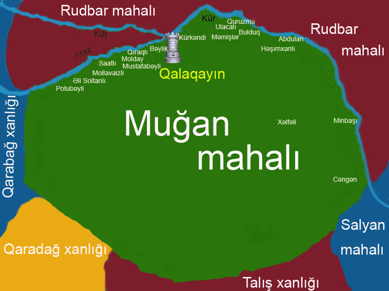 Mugan district is one of the administrative areas of the Shirvan khanate.